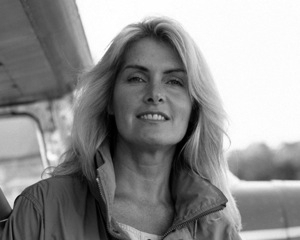 Portrait photo of Marilyn Bridges, American photographer, in 2003. Black and white. p